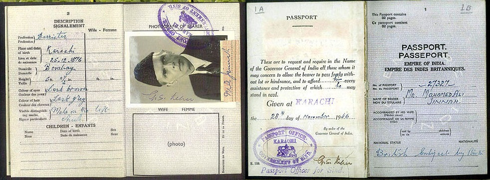 Photo of Muhammad Ali Jinnah's passport